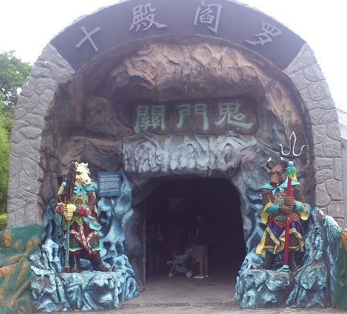 Entrance of the Ten Courts of Hell attraction at Haw Par Villa, Singapore. The Chinese words at the top read, "Ten Courts of Yama" (十殿閻羅). The Chinese words just above the entrance read, "Hell's Gate" (鬼門關). The Ox-Headed and Horse-Faced Hell Guards stand on either side of the entrance.